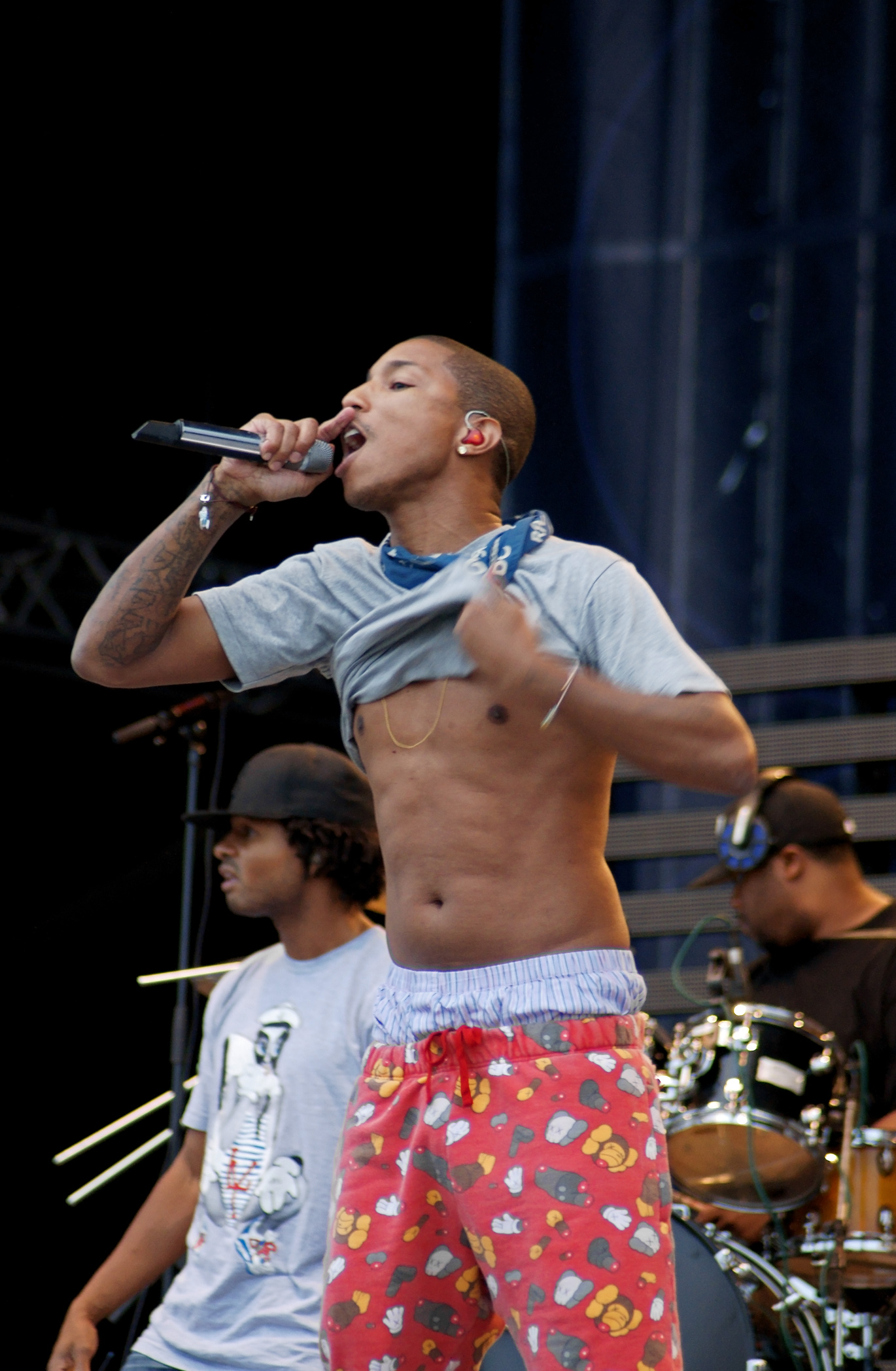 Pharrell Williams performing with N.E.R.D in Pori Jazz 2010.